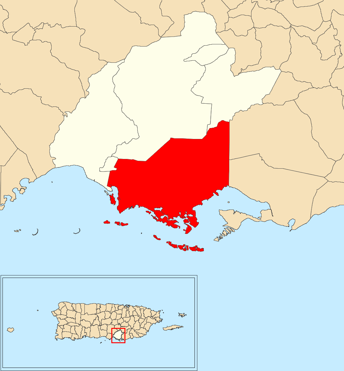 Aguirre, Salinas, Puerto Rico locator map